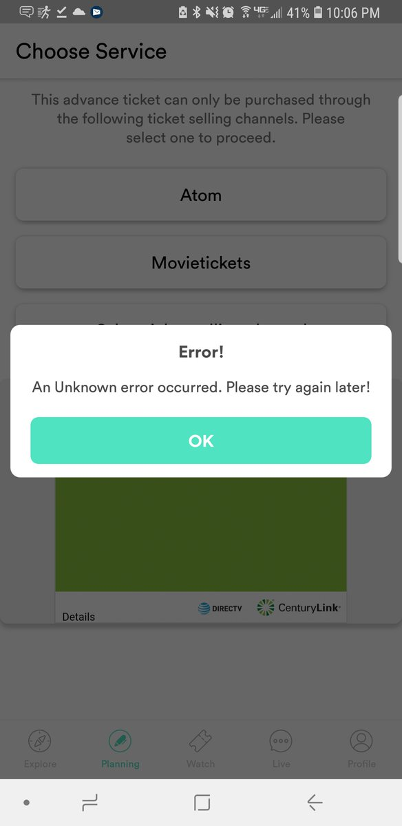 The error message most commonly experienced by Sinemia app users when trying to purchase a ticket through their service.